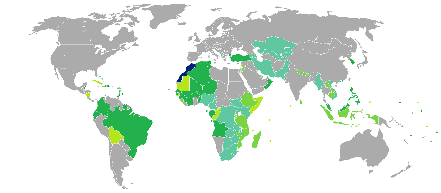 Visa requirements for Moroccan citizens Morocco Visa free access Visa on arrival eVisa Visa available both on arrival or online Visa required